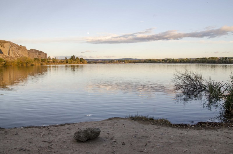 The stone, the water and the moon up above